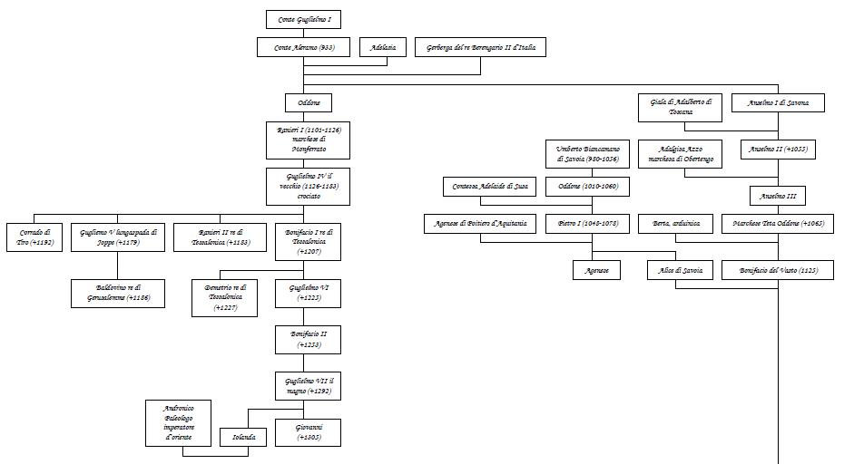 Marquis of Monferrato and Marquis of Vasto, descendants of Aleramo. Produced with Microsoft Word 2000. Historical sources: A. Manno The subalpine aristocracy. Florence, 1906.